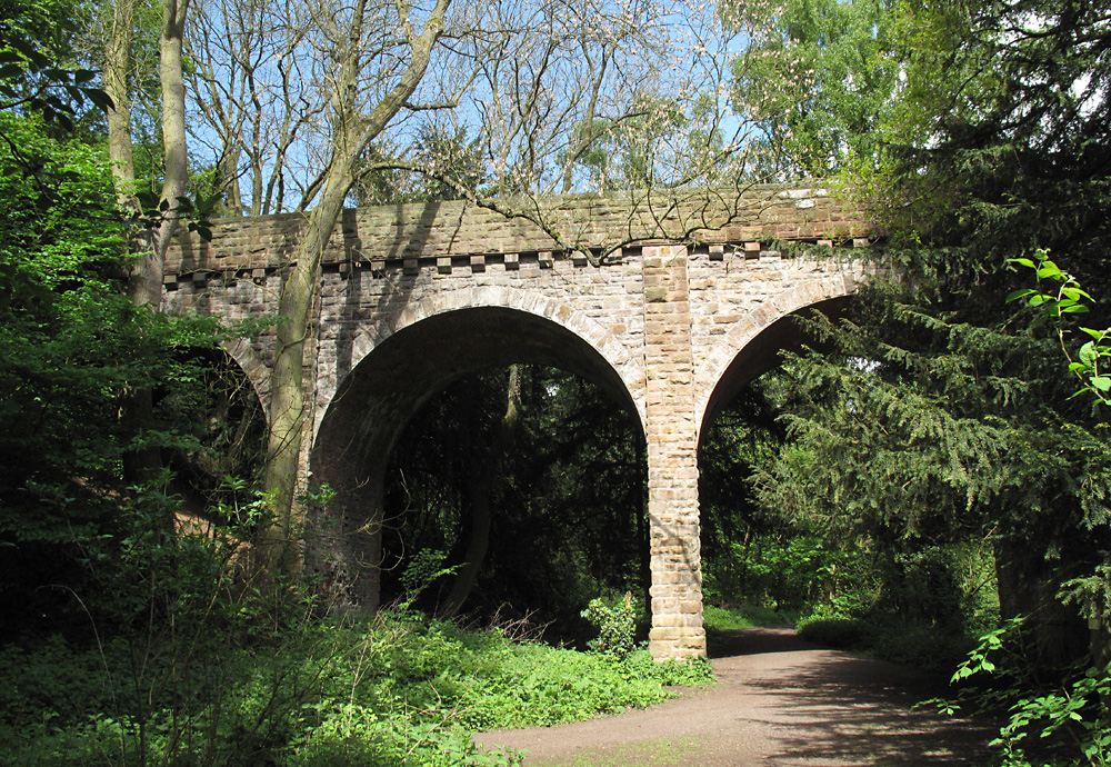 Part of Grace Dieu viaduct, on the former Charnwood Forest Railway.